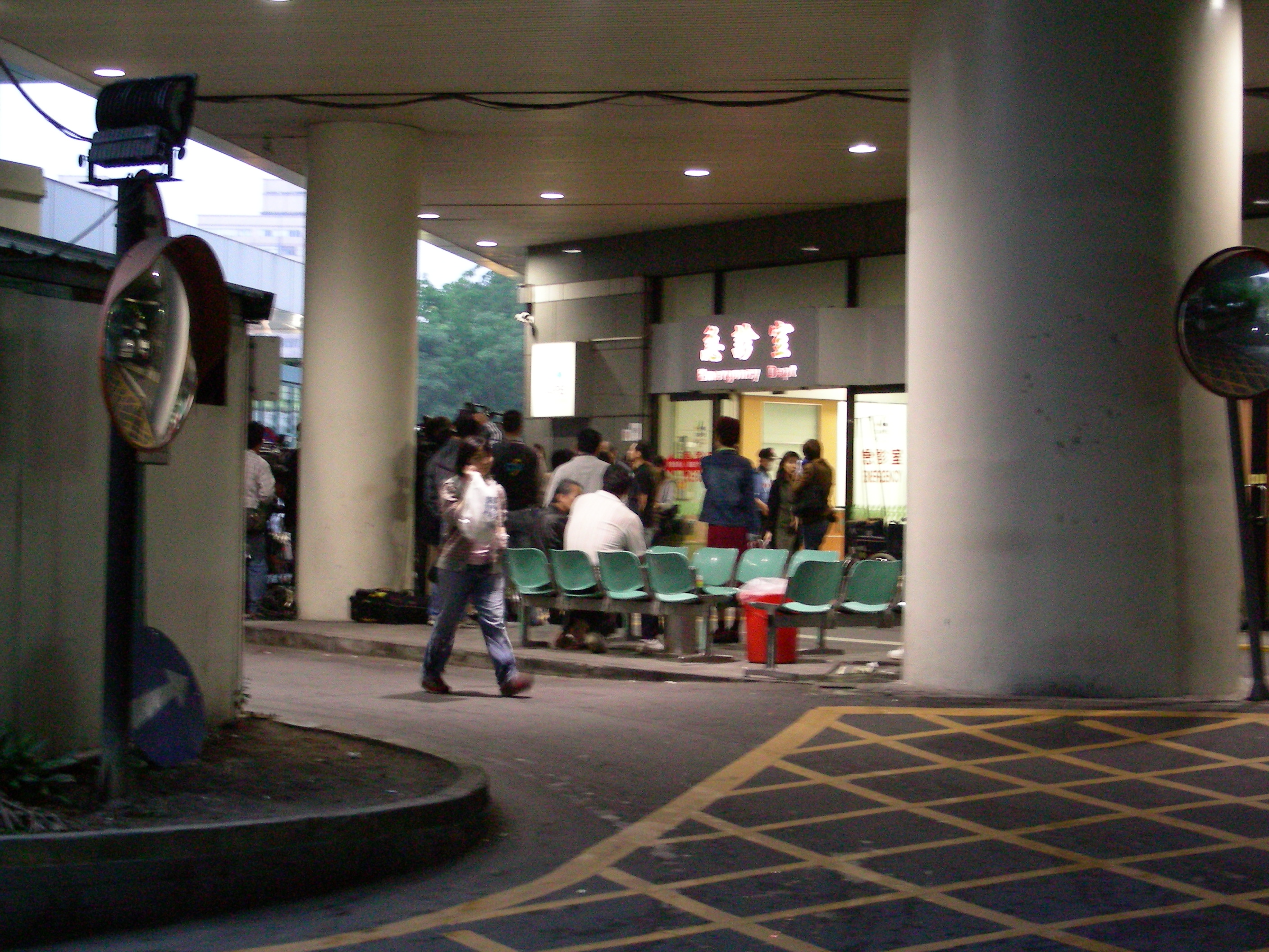 Media in Taipei Municipal Wanfang Hospital ER in 2008/5/10